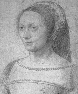 Anne de Pisseleu (1508-1580) or Diane de Poitiers (1499/1500-1566)